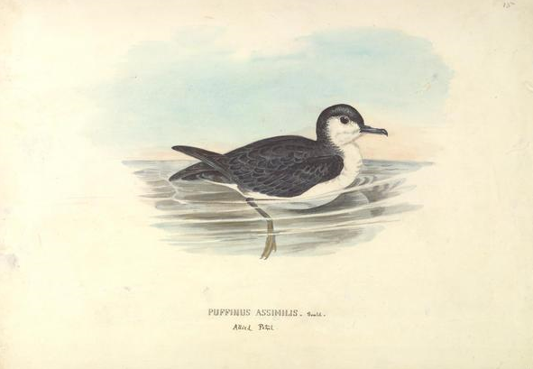 Puffinus assimilis (Allied petrel)